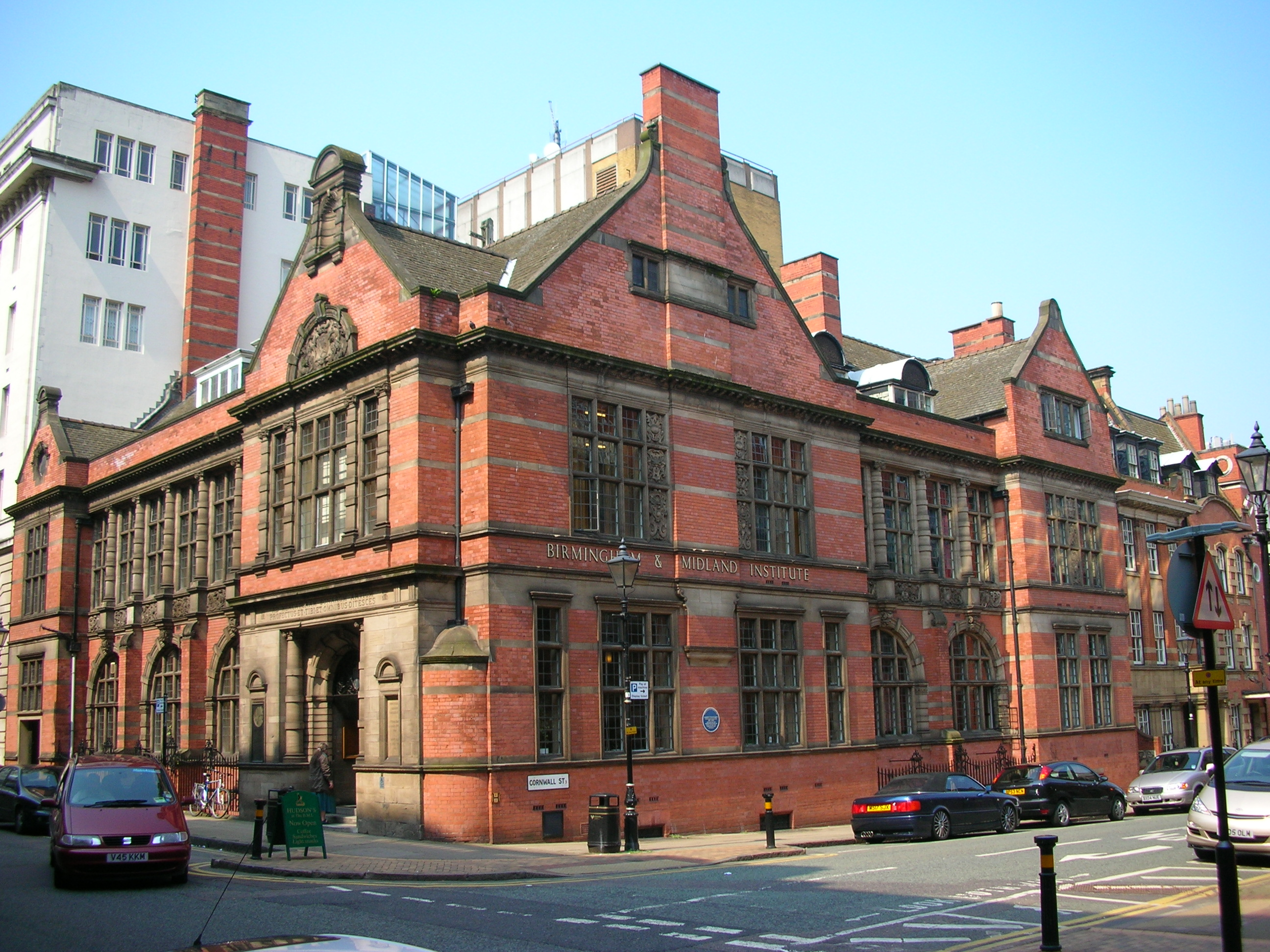 Birmingham and Midland Institute, Margaret Street, Birmingham, England.